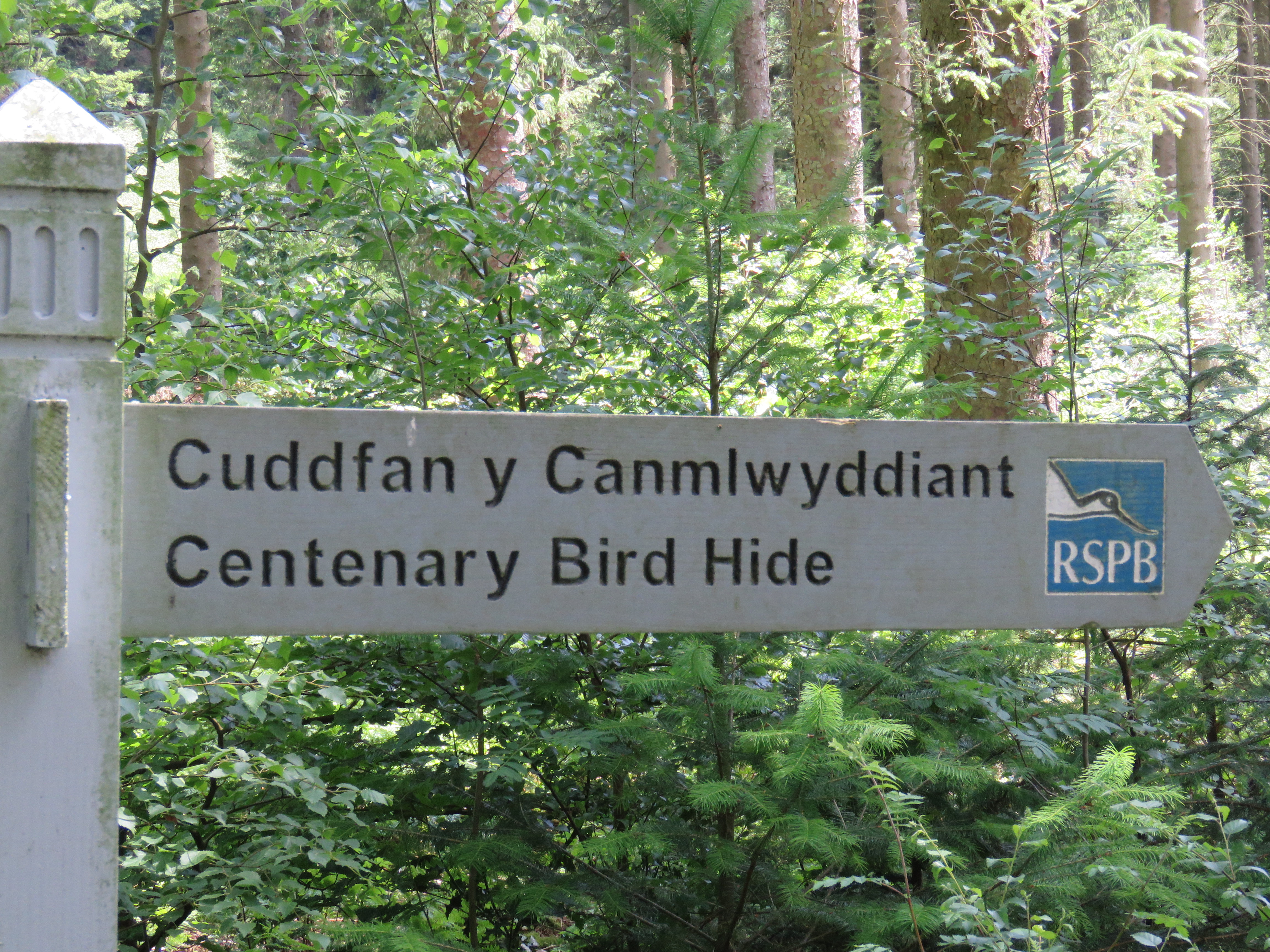 Sign to RSPB Centenary bird hide, Lake Vyrnwy